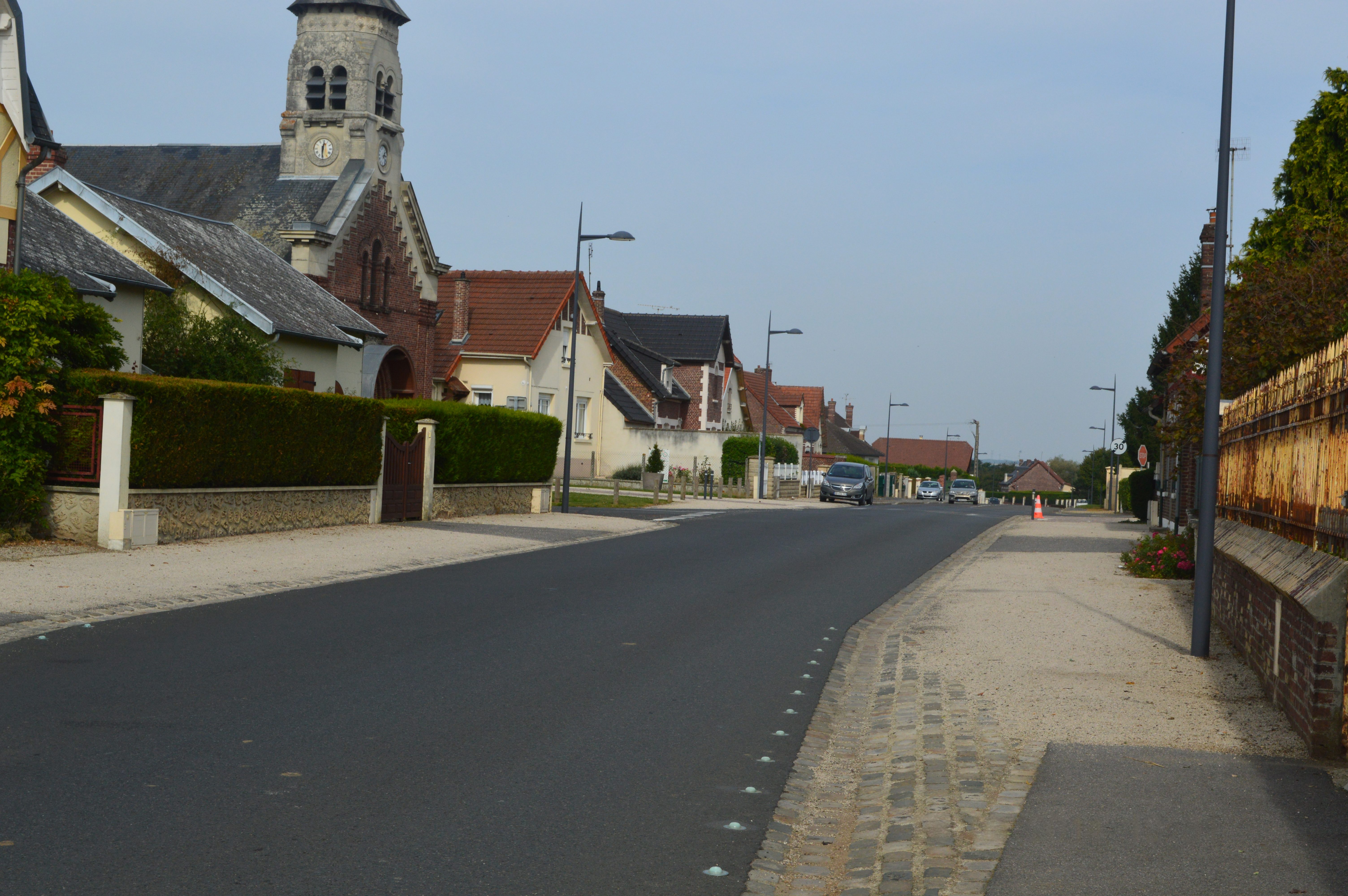 A street in Autreville